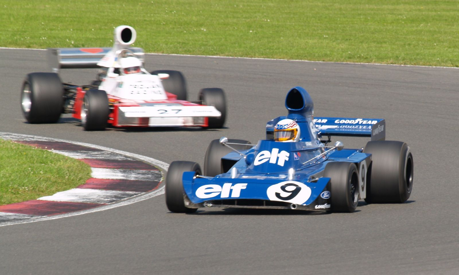 A Tyrrell 006 Formula One car leads a Trojan T103 through Luffield Corner, during the International Trophy race. At the Silverstone Classic race meeting, July 2007.